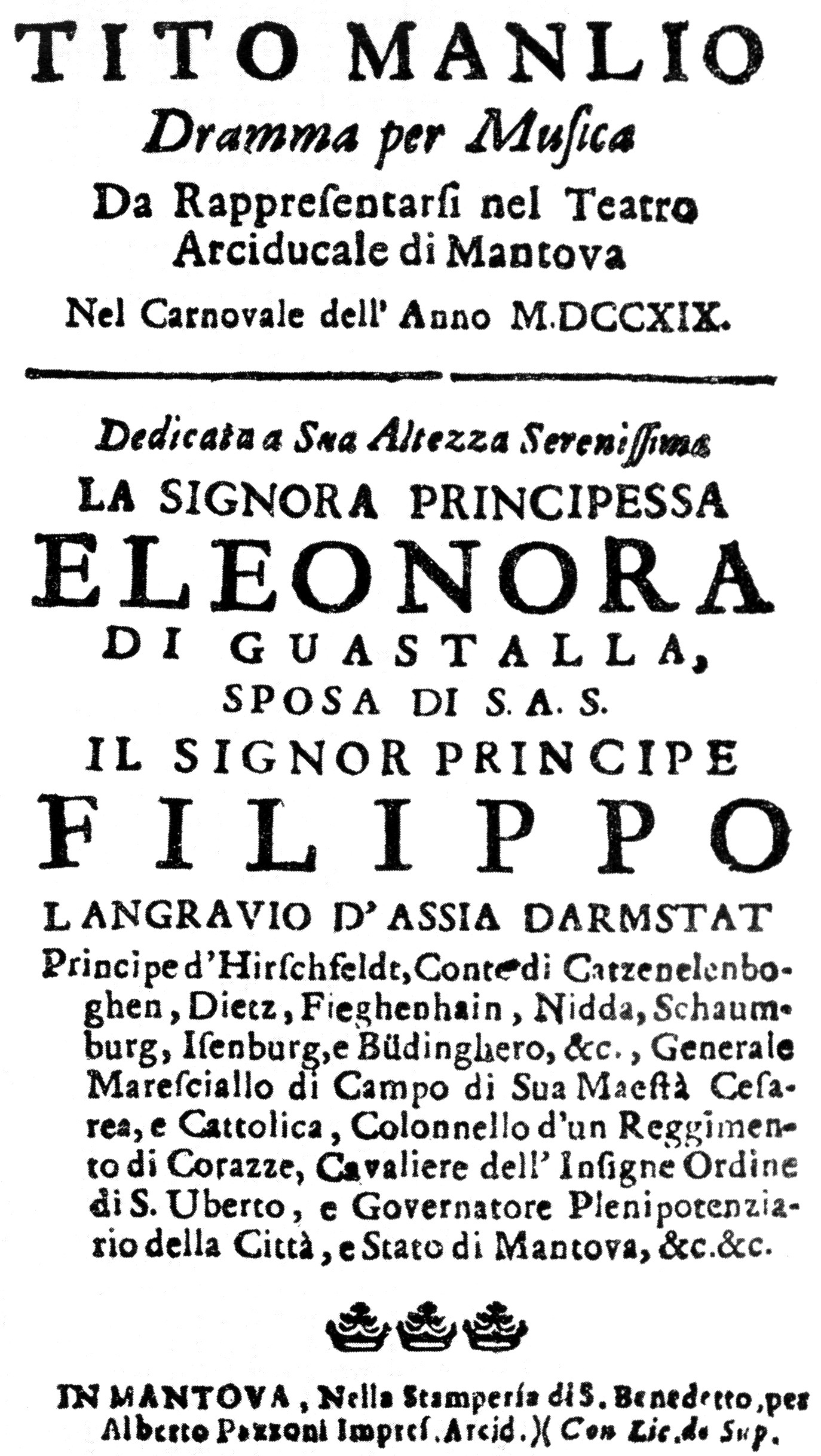 Cover of the booklet of Tito Manlio, opera composed by Vivaldi